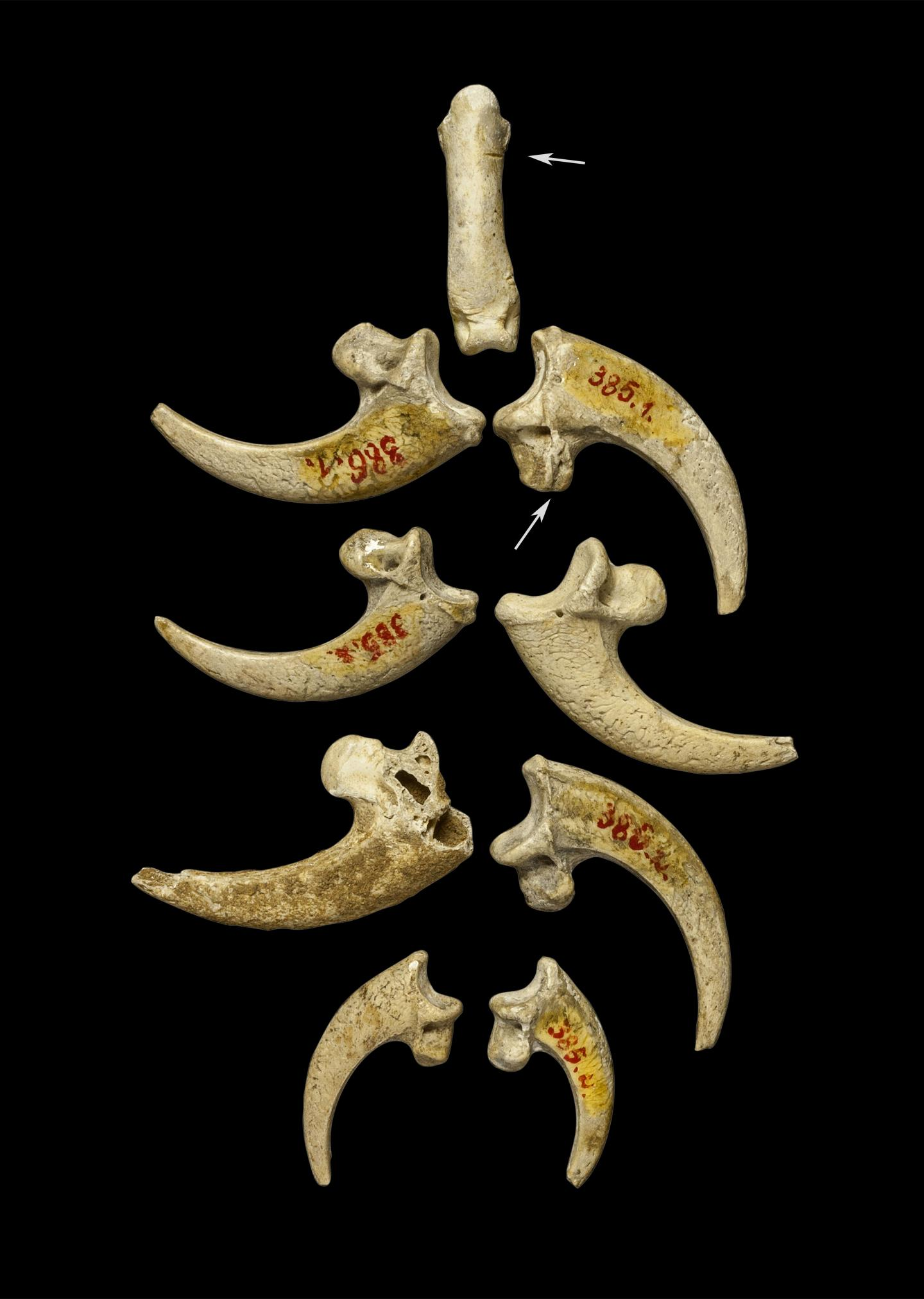 An image of white-tailed eagle talons from the Krapina Neandertal site in present-day Croatia, dating to approximately 130,000 years ago, may be part of a jewelry assemblage. From: Radovčić D, Sršen AO, Radovčić J, Frayer DW (2015): "Evidence for Neandertal Jewelry: Modified White-Tailed Eagle Claws at Krapina." PLoS ONE 10(3): e0119802.